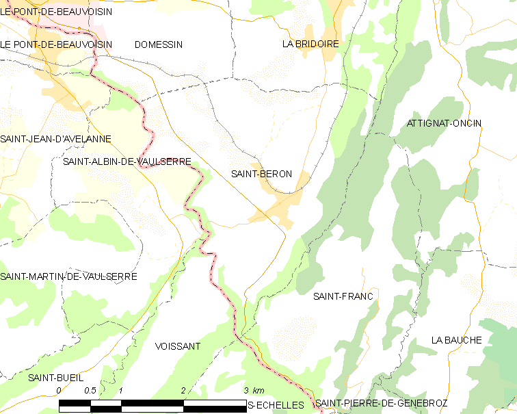 Map of French municipality